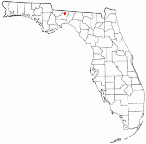 Copied from Woodville map and altered to reflect Bradfordville location.